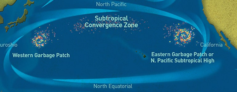 This image is used to outline the ocean currents and where the largest plastic Pacific Garbage Patches are in the ocean, as applicable to the solution of pollution in our waters.